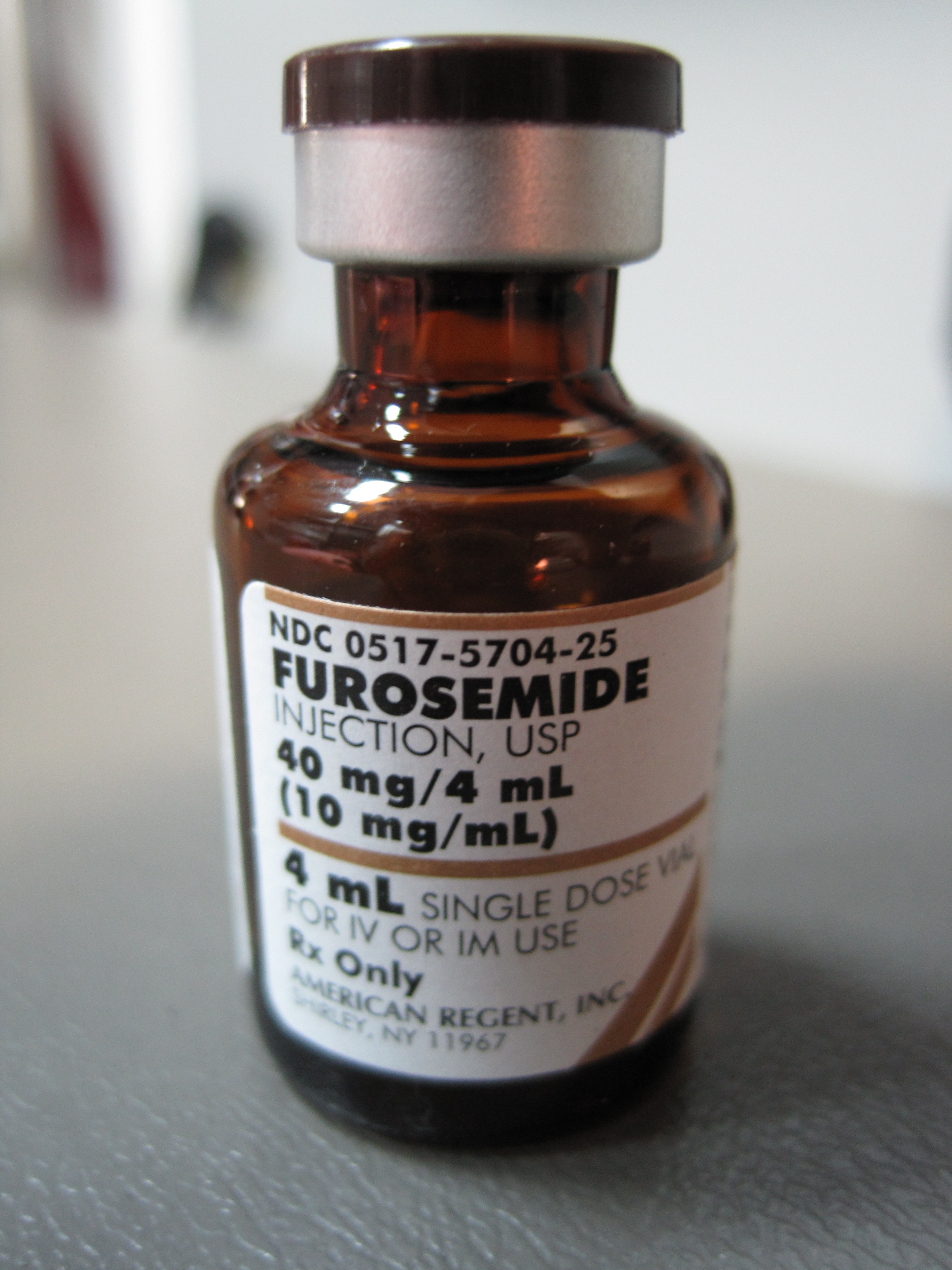 Furosemide preparation, single dose vial for intravenous administration.